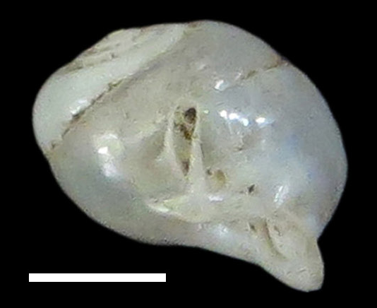 Photo of a lateral view of a shell of holotype of Perrottetia hongthinhae (holotype, VNMN_IZ 000.000.153). Locality: Vietnam, Lai Chau Province, Nam Loong Commune, Lai Chau City, 22°25’16”N, 103°22’25”E, 1,226 m; 12.07.2015). Scale bar is 2 mm.